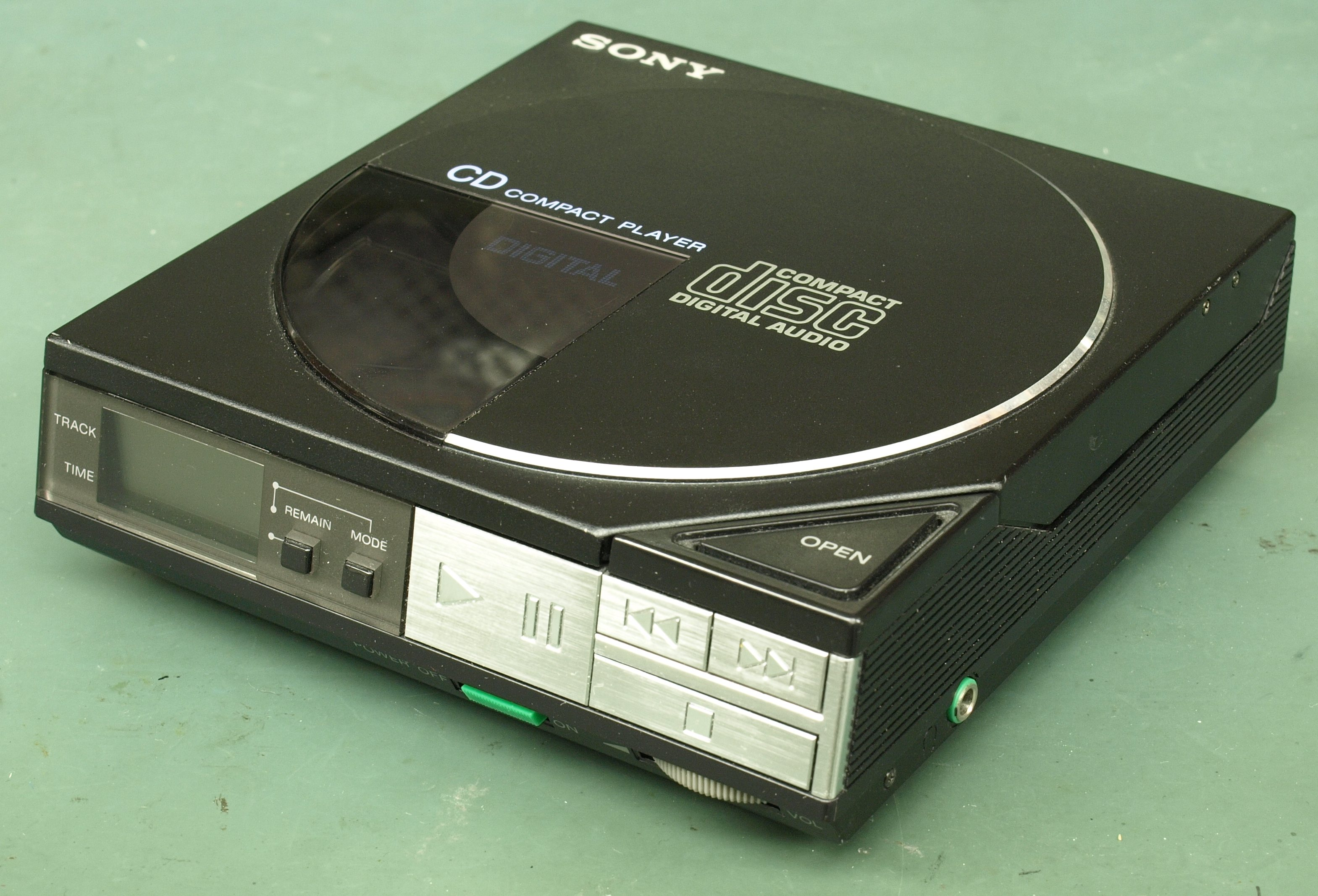 The original Sony D50/D5 Discman from 1984